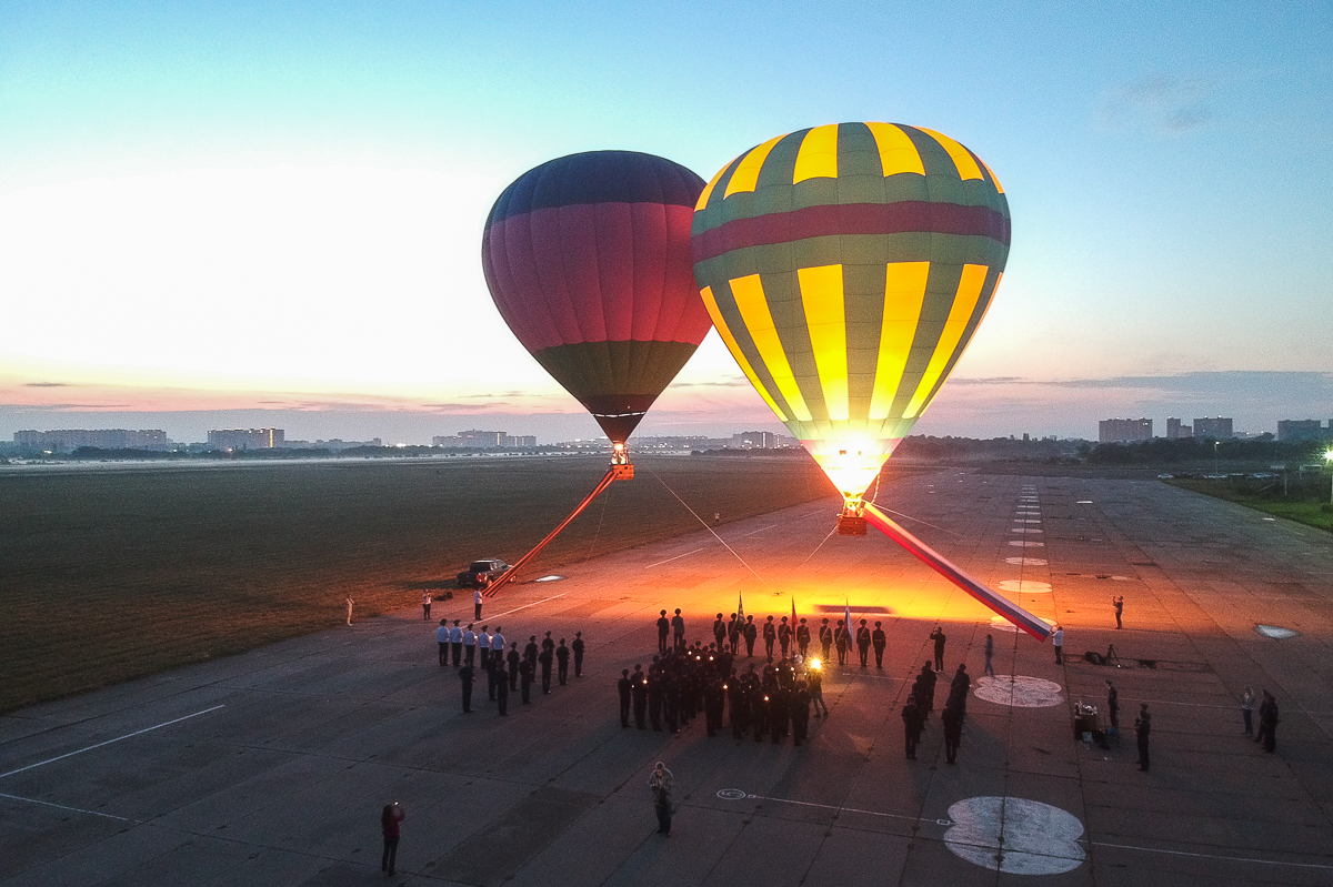 DCIM/100MEDIA/DJI_0279.JPG